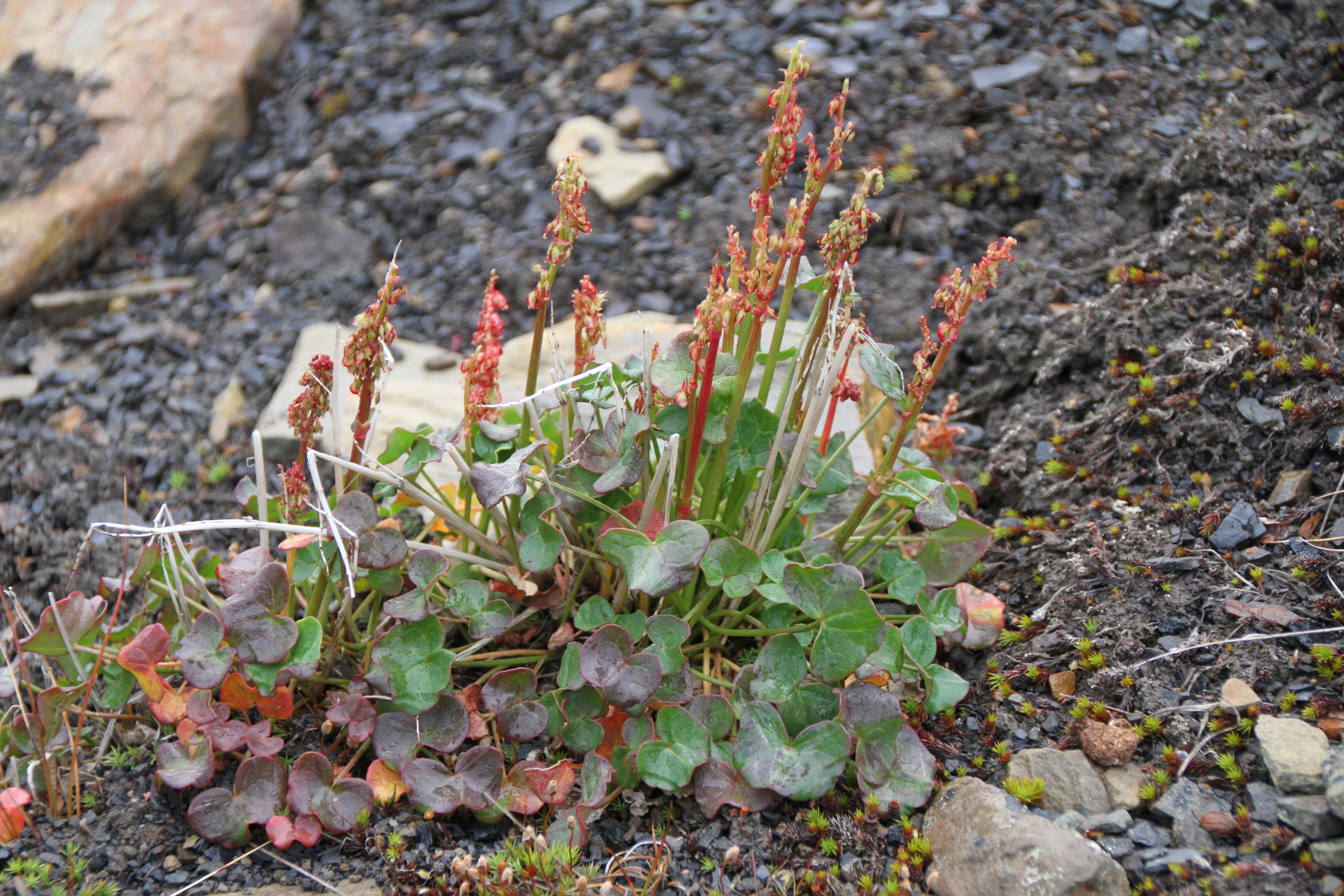 Photo of plant nearby Longyearbyen, Spitsbergen (Norway)